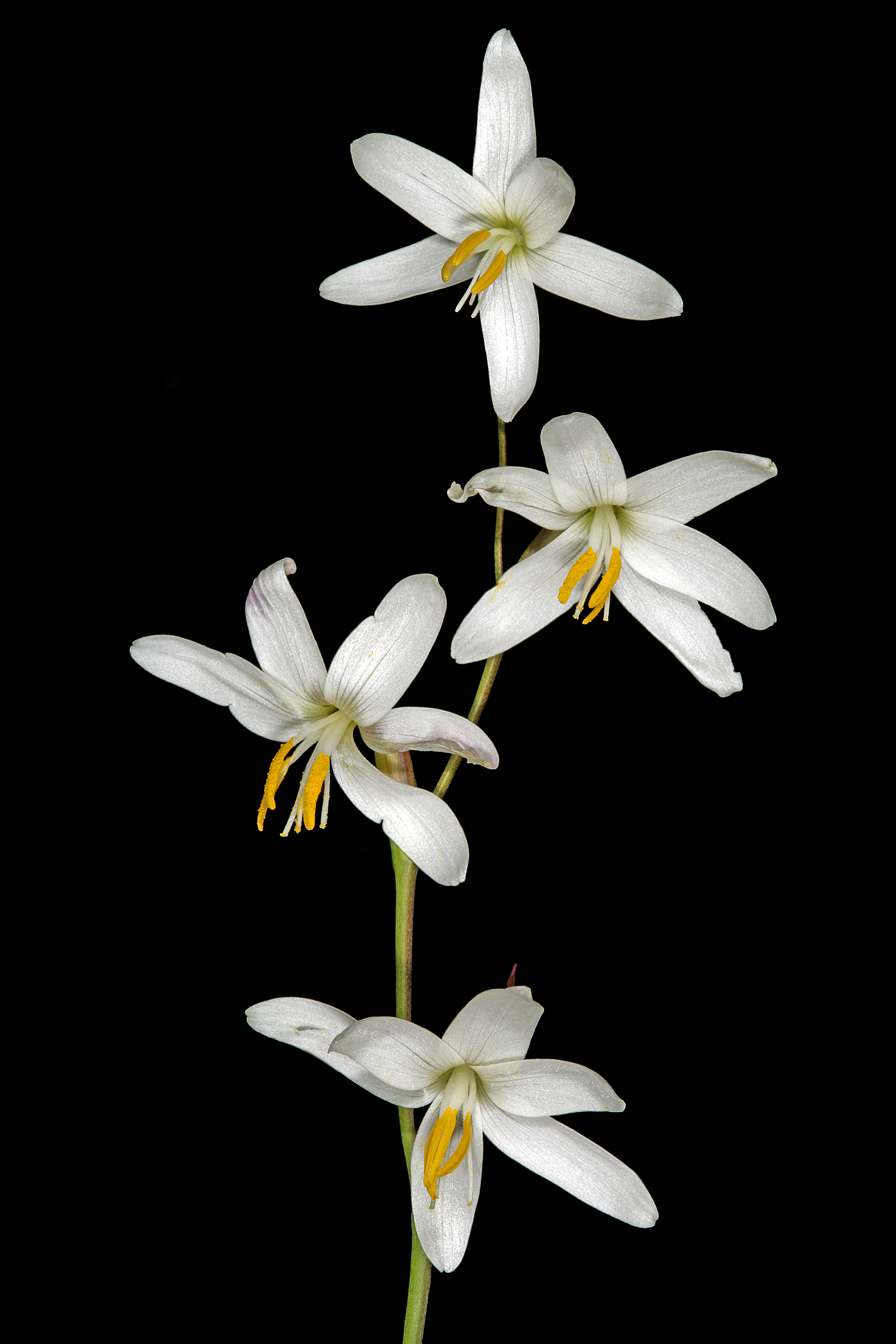 Hesperantha bachmannii, inflorescence; farm Oorlogskloof, Nieuwoudtville, Northern Cape, South Africa